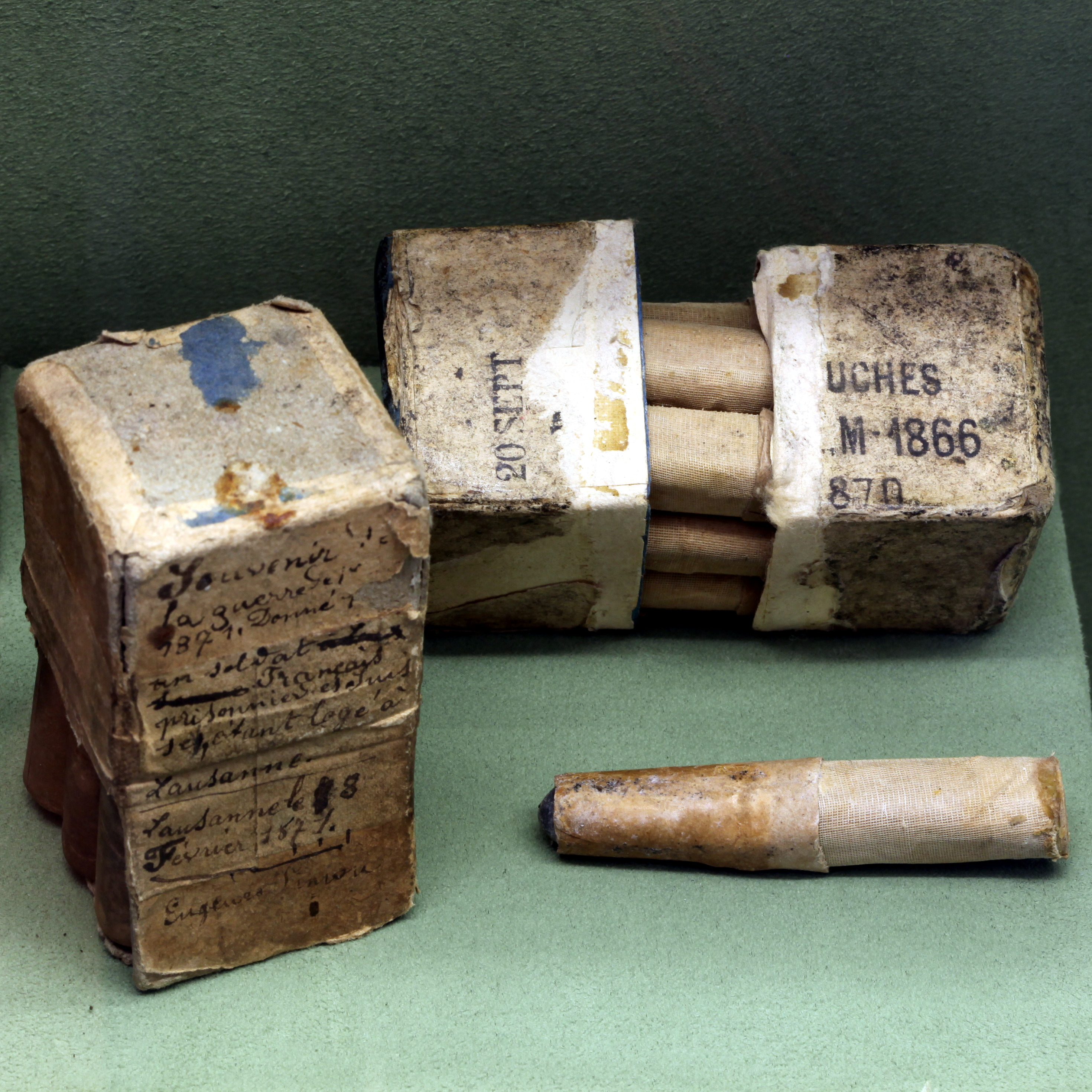 Chassepot cartouches M 1866.